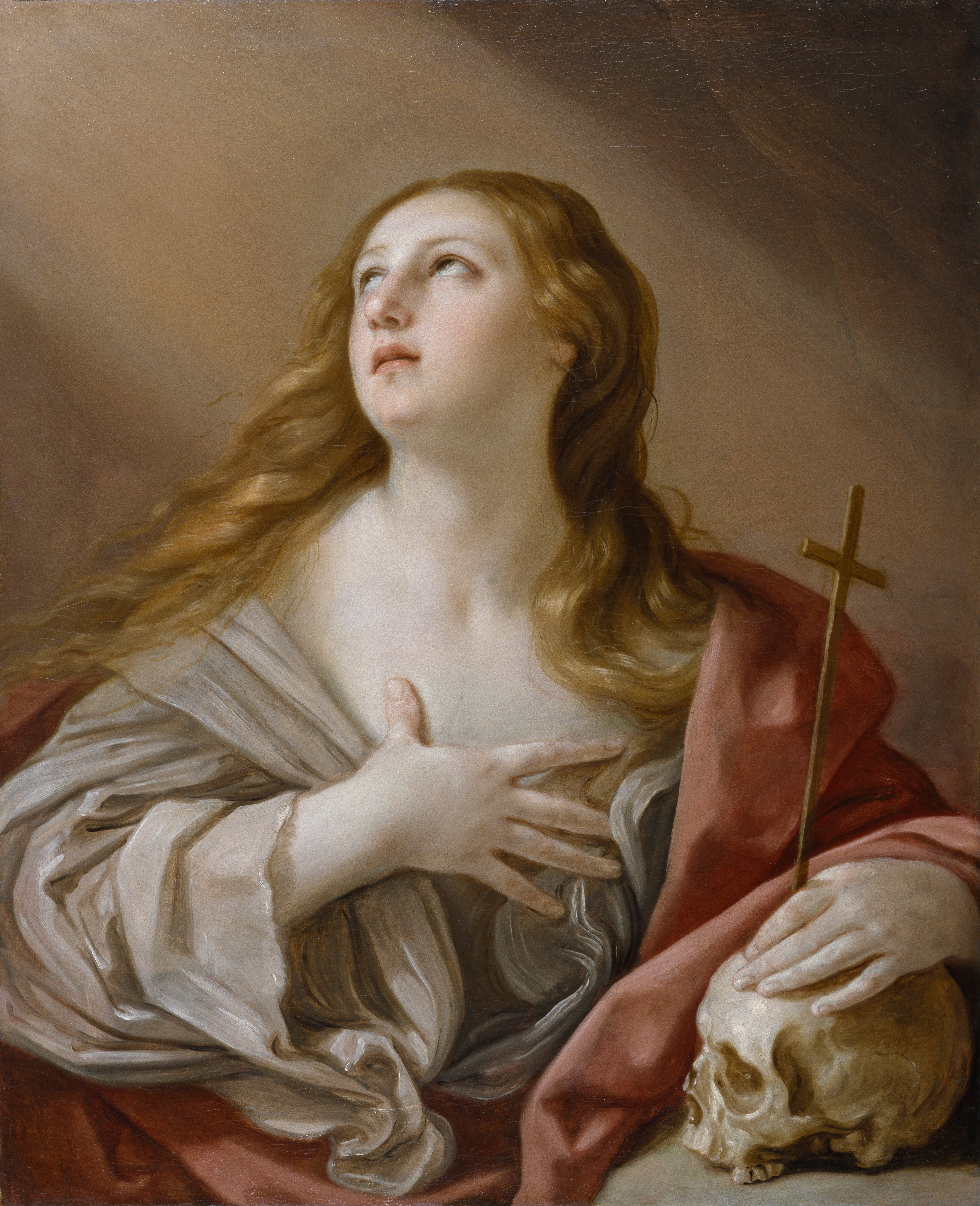 According to Christian tradition, after meeting Christ, Mary Magdalene repented of her former sinful ways. With her ivory skin and long golden hair, the beautiful Magdalene turns her gaze toward heaven. Her cross and the skull make it clear she is meditating on the brevity of life and the salvation made possible by Christ's death. Reni created an idealized, as well as classical style influenced by ancient sculpture and by the Renaissance artist Raphael (1483-1520). This influence is visible in the Magdalene's rounded, even features, painted so smoothly that the strokes seem to disappear, in contrast with the broad, energetic strokes used for the drapery, more typical of 17th-century painting. Images of female saints sometimes depicted in a seductive manner, were very popular with some artists and patrons in the 17th century, and Reni painted many versions of this composition.